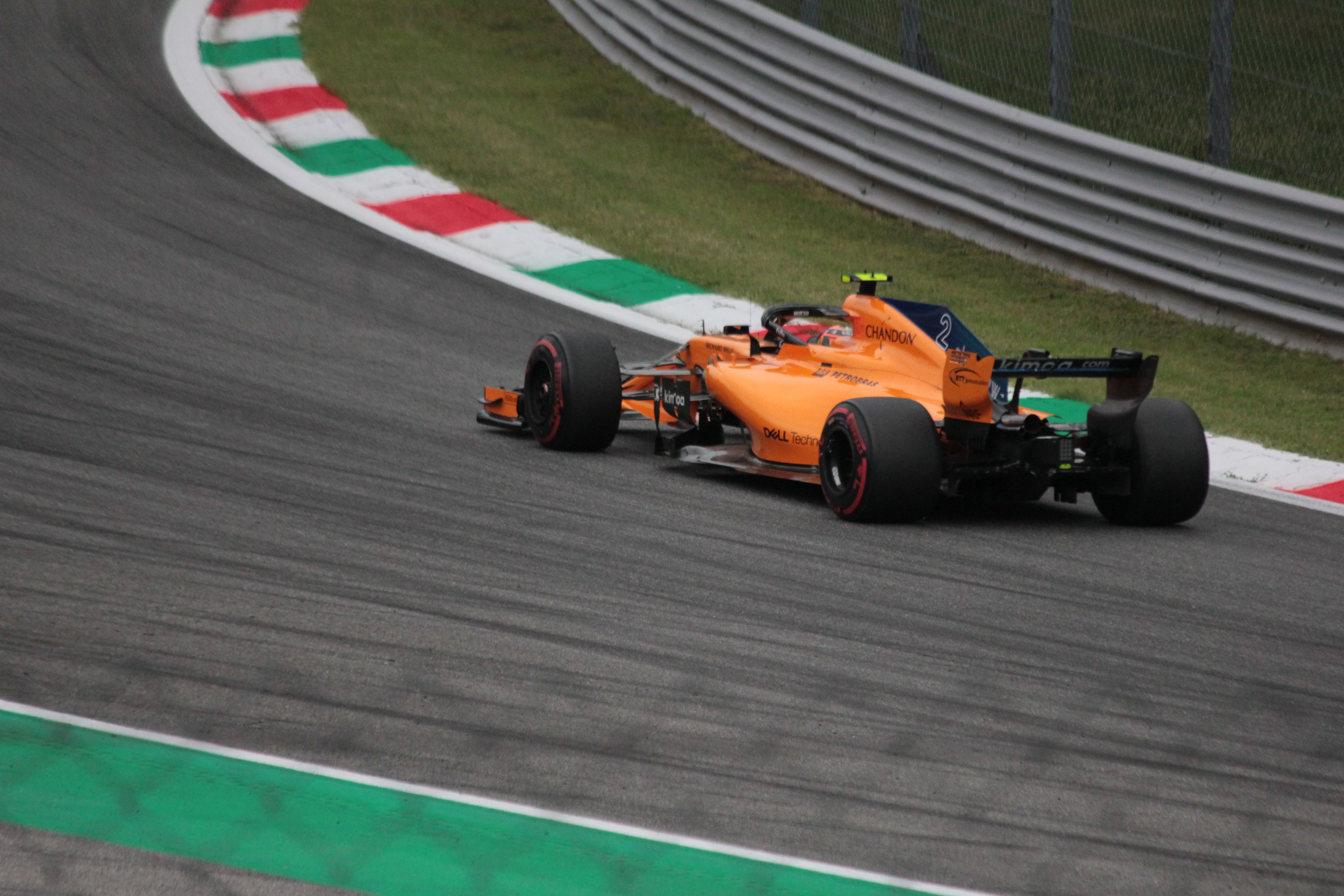 McLaren-Renault driver Stoffel Vandoorne at Monza's Parabolica, during 2018 Italian Grand Prix second free practice session.